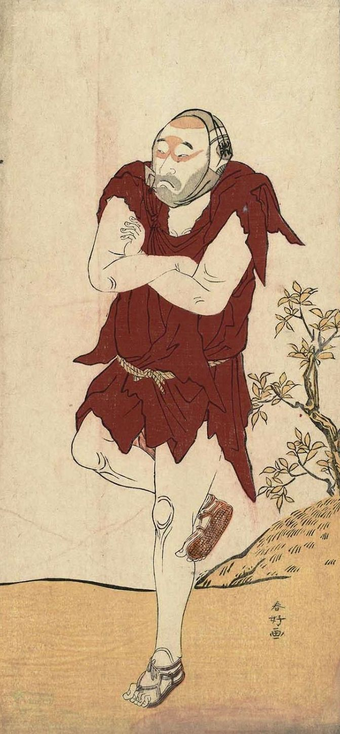 Actor Onoe Matsusuke I as a Mendicant Monk (Gannin bôzu)